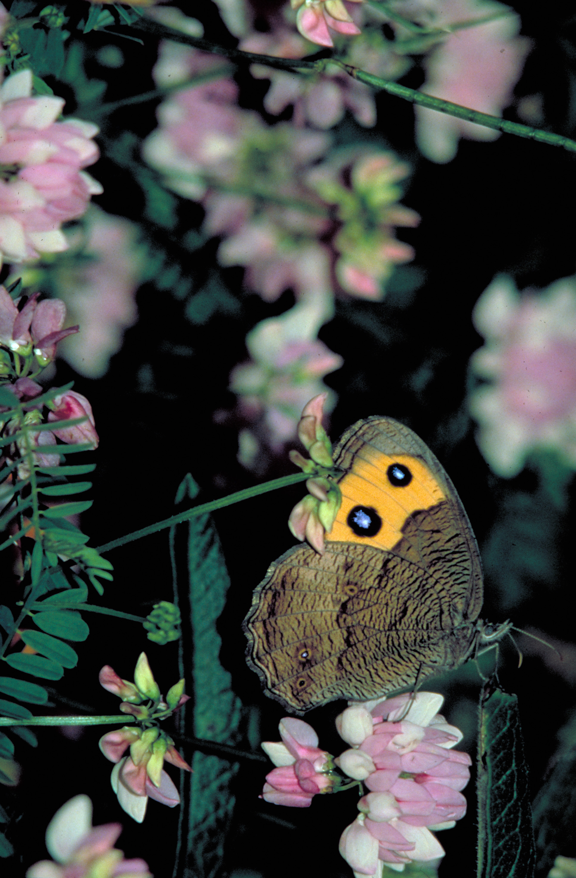 Common Wood-Nymph butterfly (Cercyonis pegala)